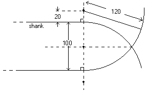 Sketch of a secant ogive (sharpness ratio E = 120 / 100 = 1.2) drawn by Securiger on 15 Apr 2004, a small improvemnt on my previous secant_ogive.gif (plus now in PNG format).